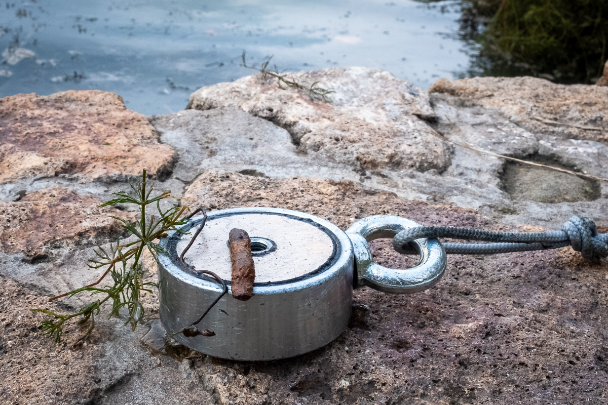 Neodymium magnet for magnetic hunting, magnet fishing, double-sided with eye and polyester rope tied, with a piece of old iron attached after pulling out of the water.